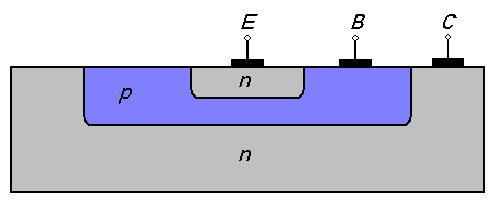 Simplified cross section of a planar npn Bipolar junction transistor showing the emitter, base and colector contacts and the respective regions with the silicon doping type.